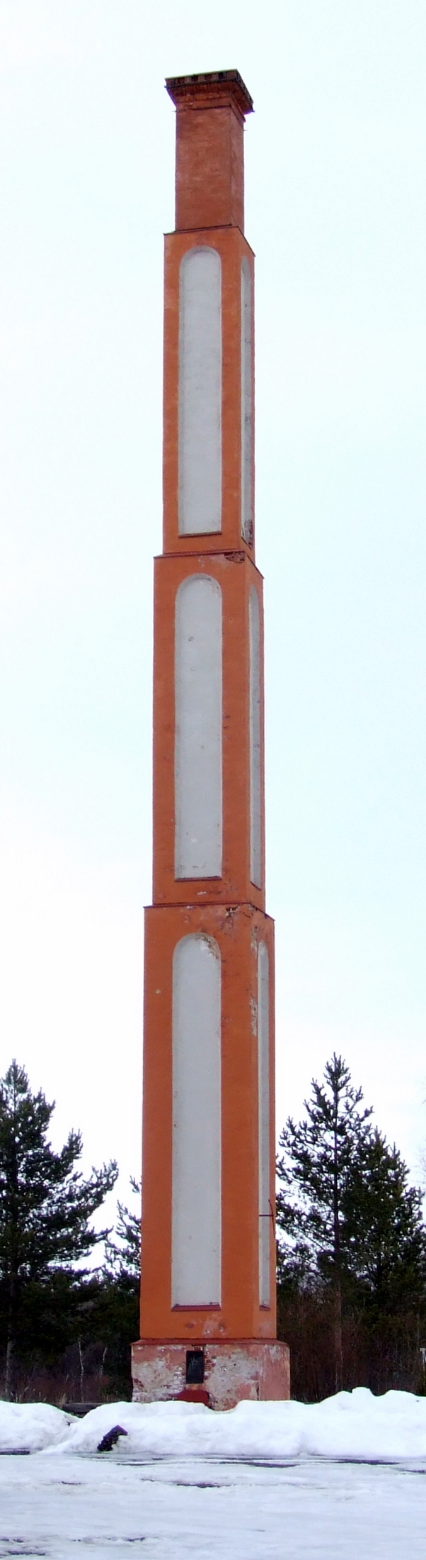 Only the chimney is left of the oldest steam saw in Finland. Kestilän saha sawmill operated during the years 1860-1908 in the municipality of Ii in Northern Ostrobothnia.